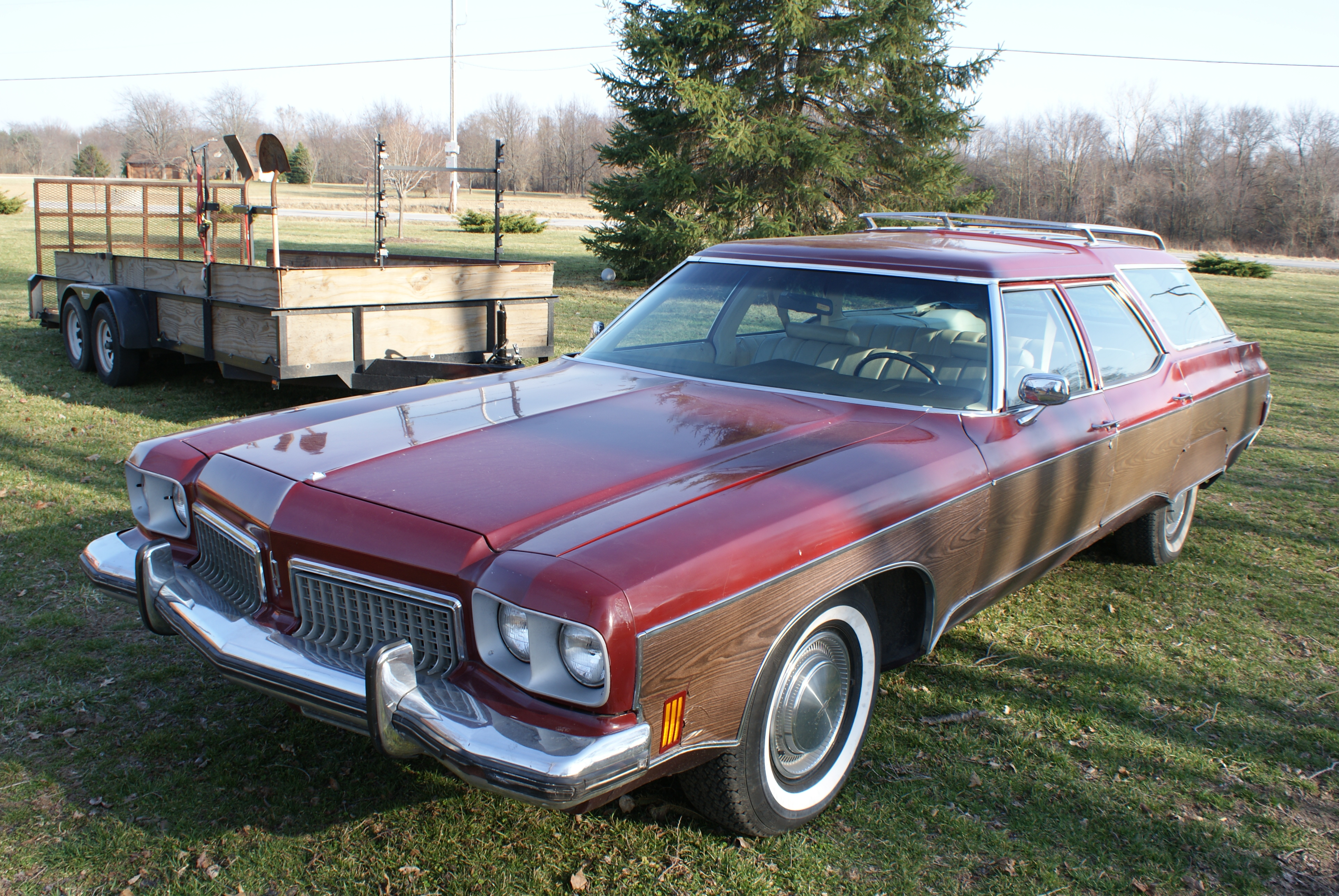 1973 Oldsmobile custom cruser